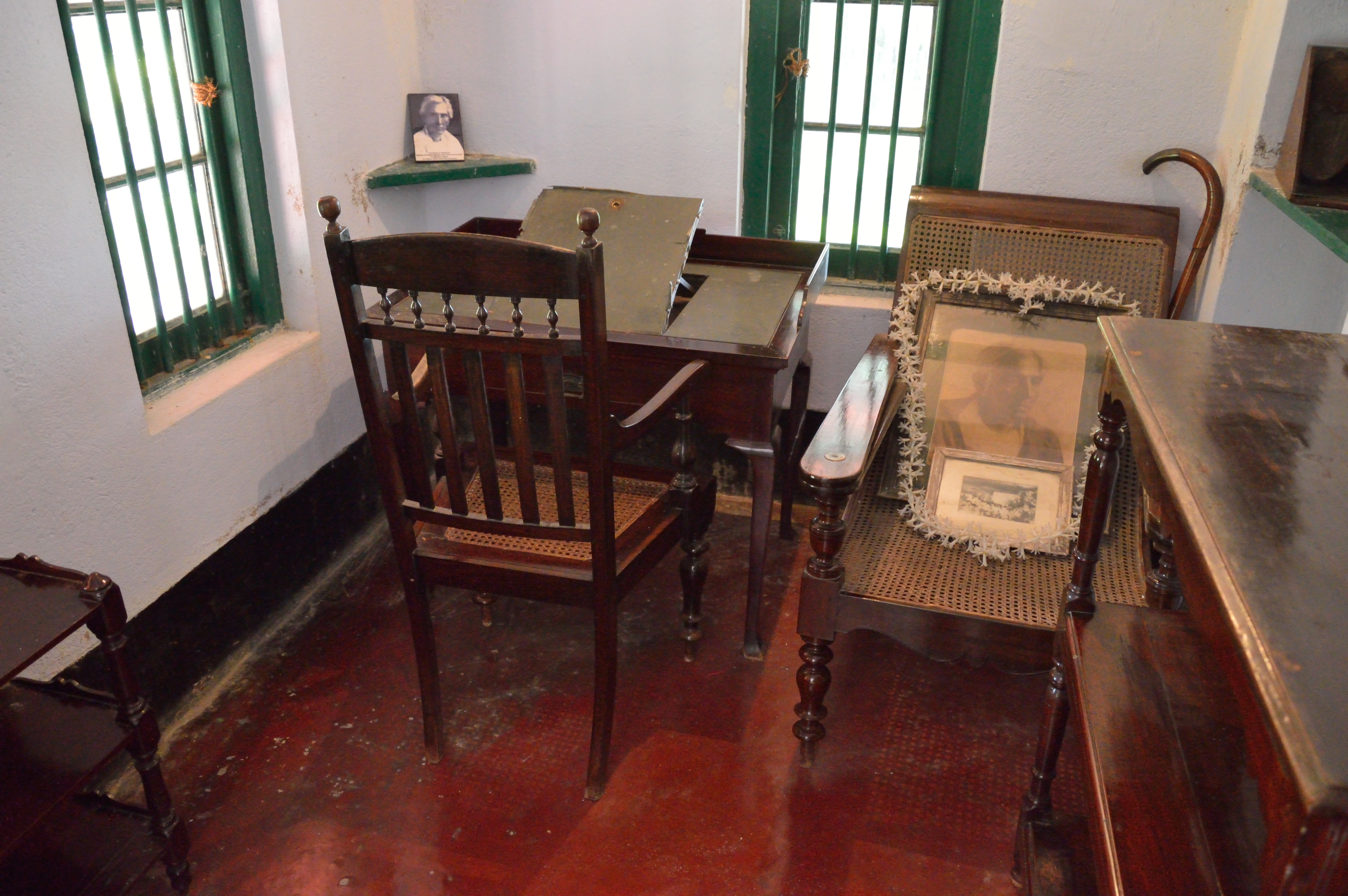 This photograph was taken at the ‘House of Sarat Chandra Chattopadhyay ‘ or ‘Sarat Chandra Kuthi’ or ‘Sarat-Smriti-Mandir’ is located at Samtaber (Samta) , Bagnan, Howrah in the Indian state of West Bengal. The two storied Burmese style house was also home to Sarat Chandra's brother, Swami Vedananda, who was a disciple of Belur Math. This museum building was declared as a ‘Heritage Building’ by the ‘West Bengal Heritage Commission’ in 2007.